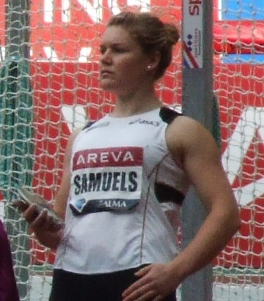 Australian discus thrower Dani Samuels during the 2010 Meeting Areva, the ninth stage of the 2010 Diamond League in Saint-Denis, Paris.